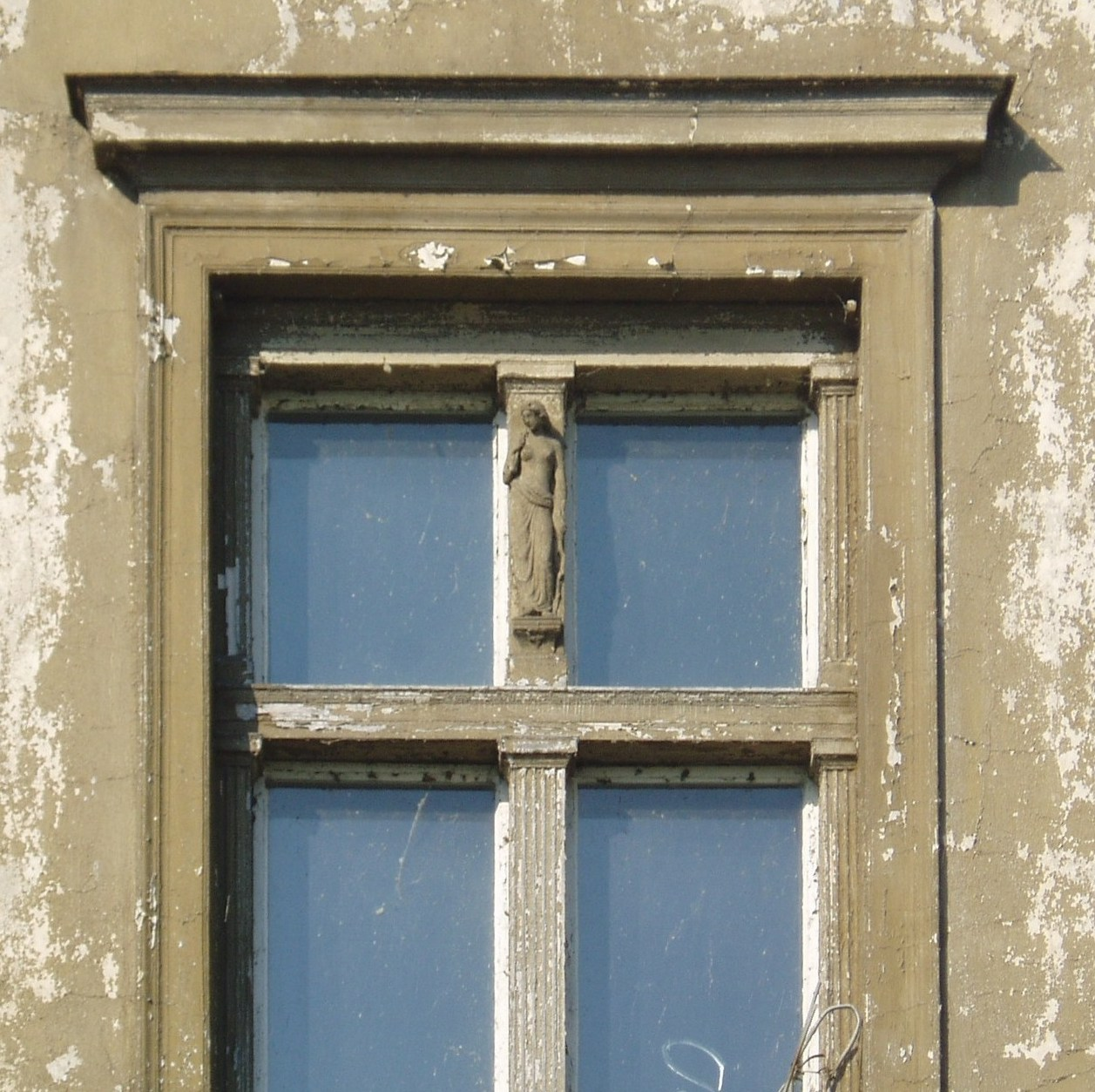 Detail at a window of the Villa Schöningen, Potsdam, Germany